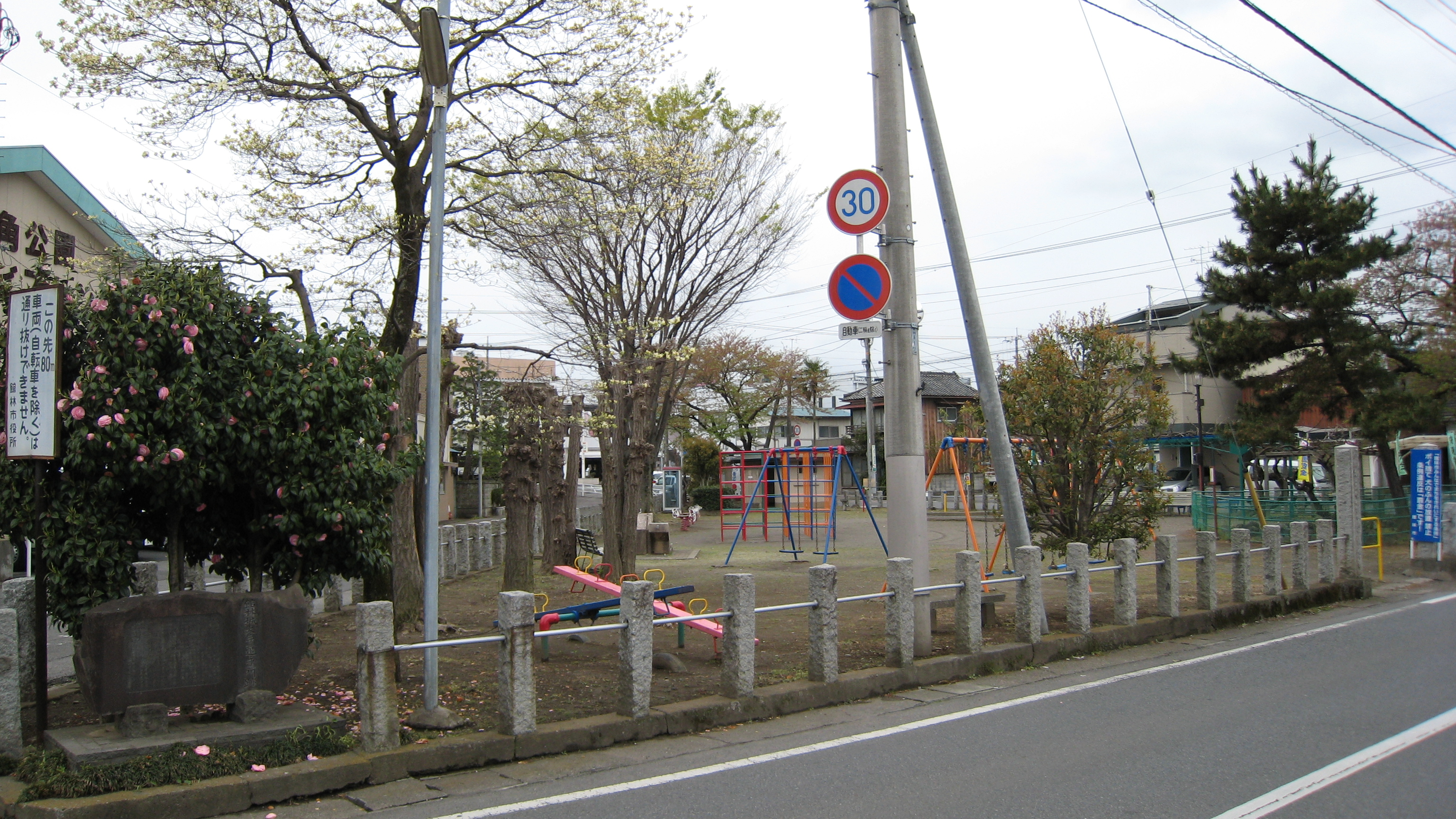 Tatebayashi castle Otemon(Ote-gate) ruin at the Sankaku(triangle)-Koen(park) in Tatebayashi,Gunma Prefecture,Japan